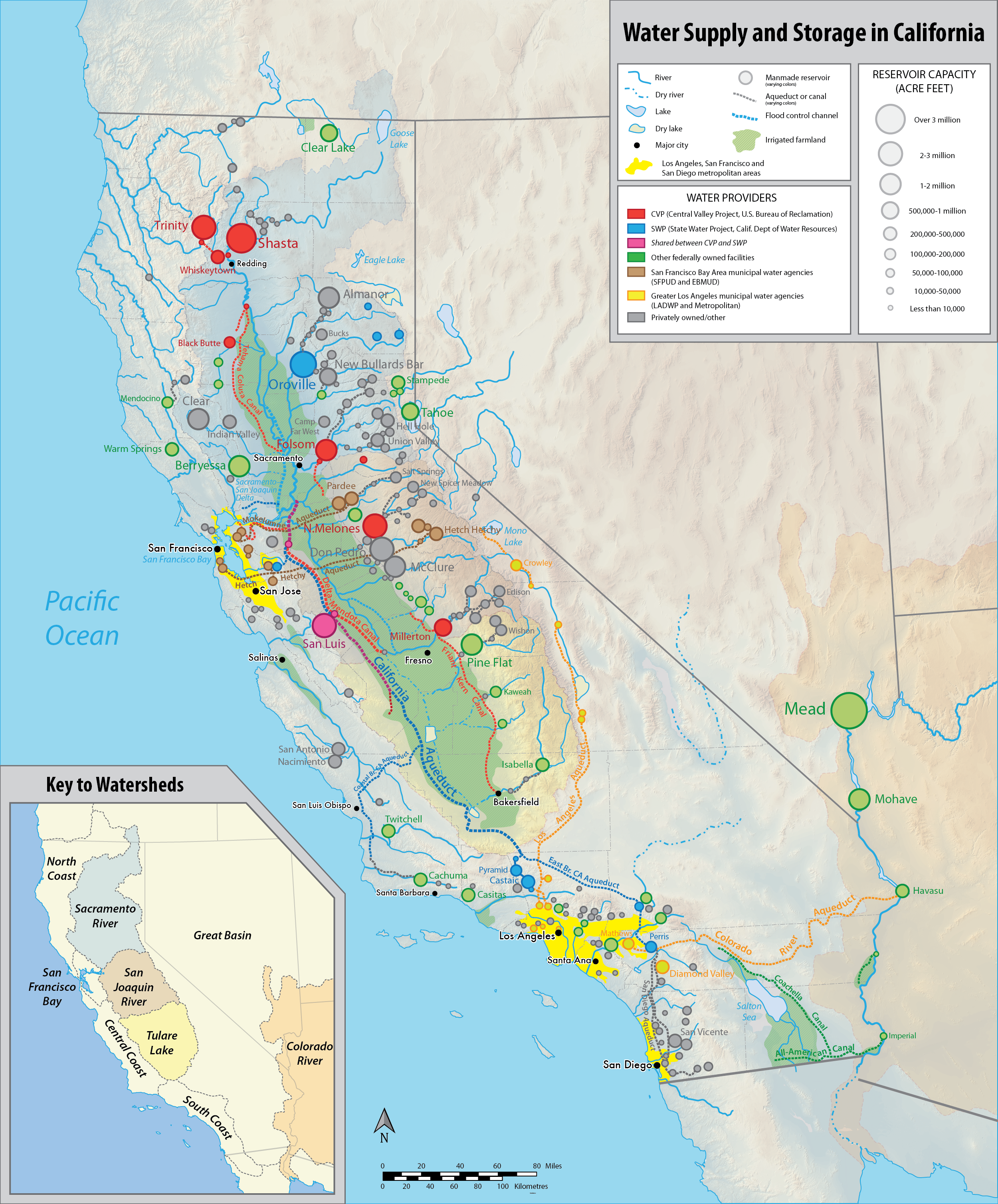 Map of California's interconnected water systems. Intended to replace File:California_water_system.jpg. Made using data from USGS and California Department of Water Resources. Topography from USGS.